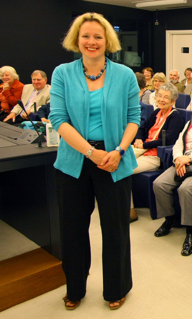 Conservative MEP Vicky Ford while talking to a group from the Watford Friendship Centre.